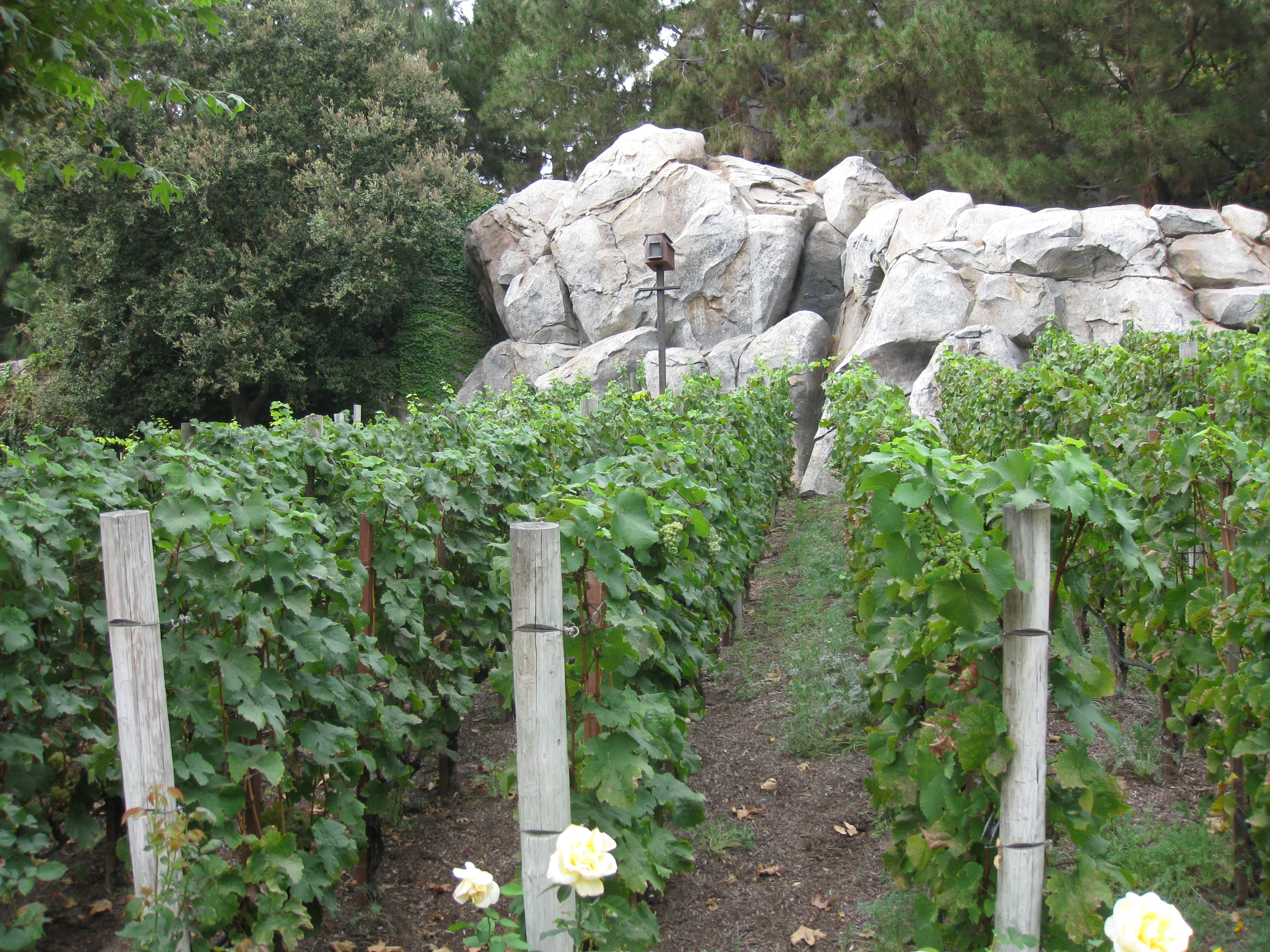 Disney's California Adventure, Disneyland Resort